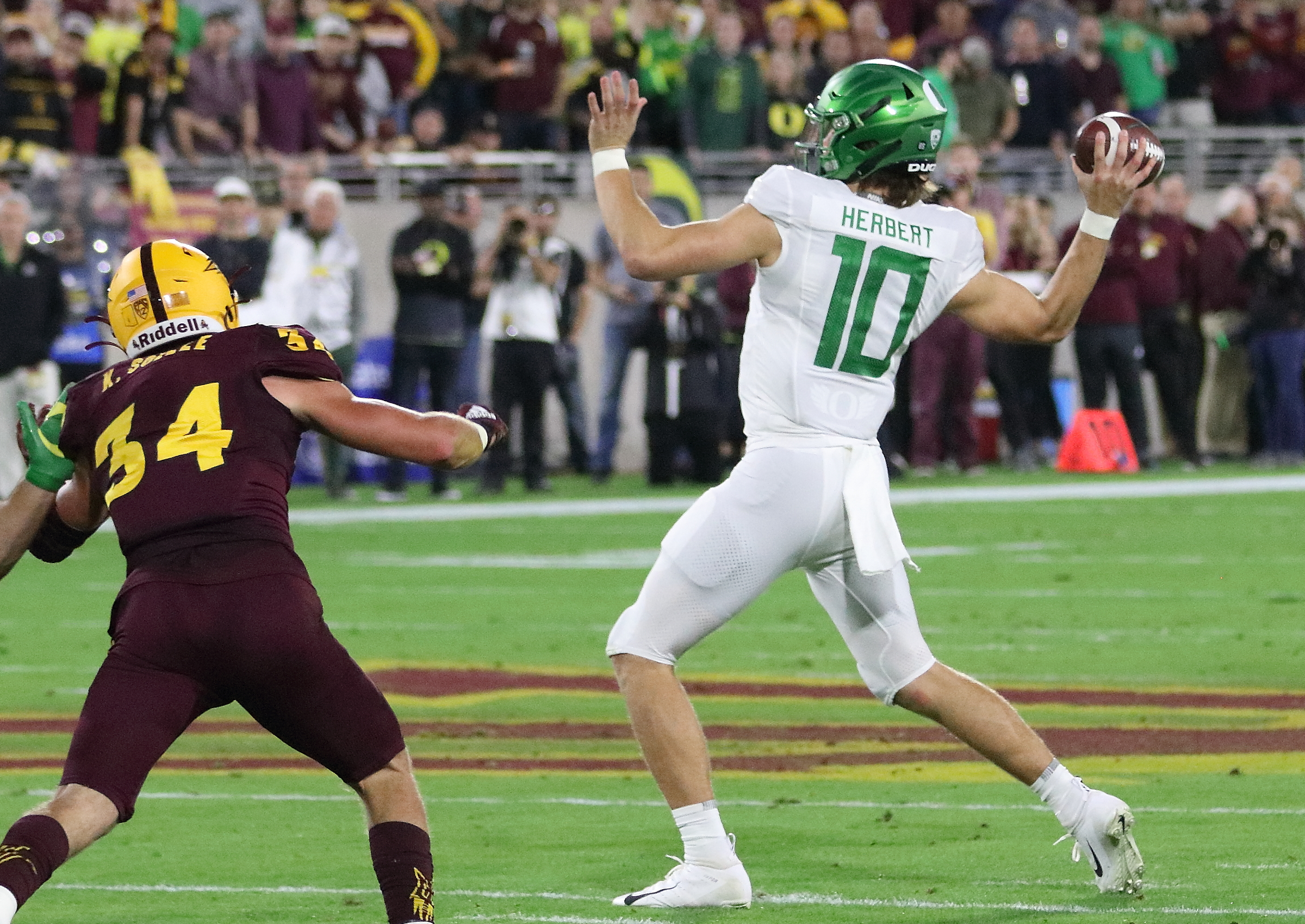 ASU vs OSU 2019 #235